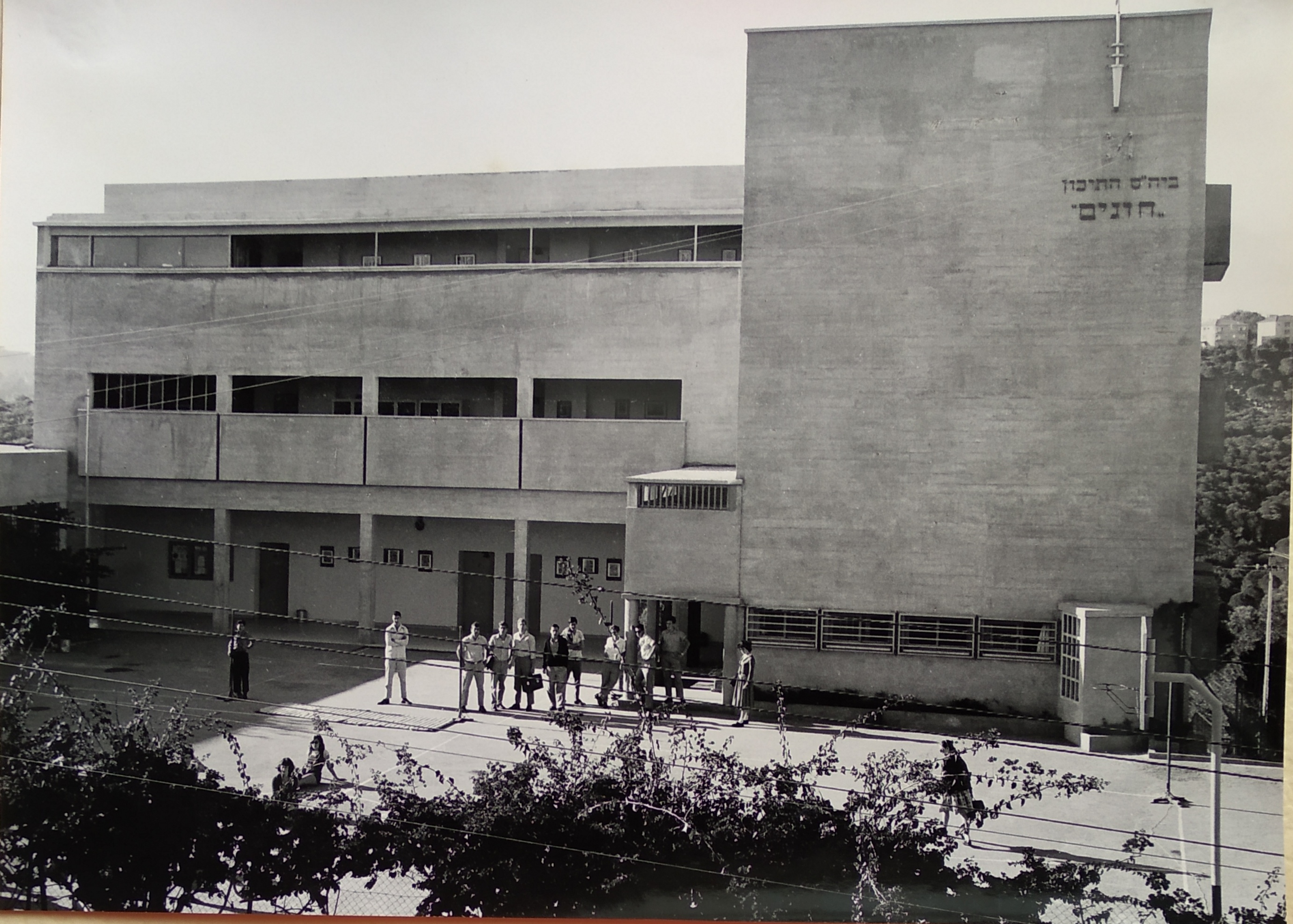 Hugim School on Mt. Carmel, middle of the 50's